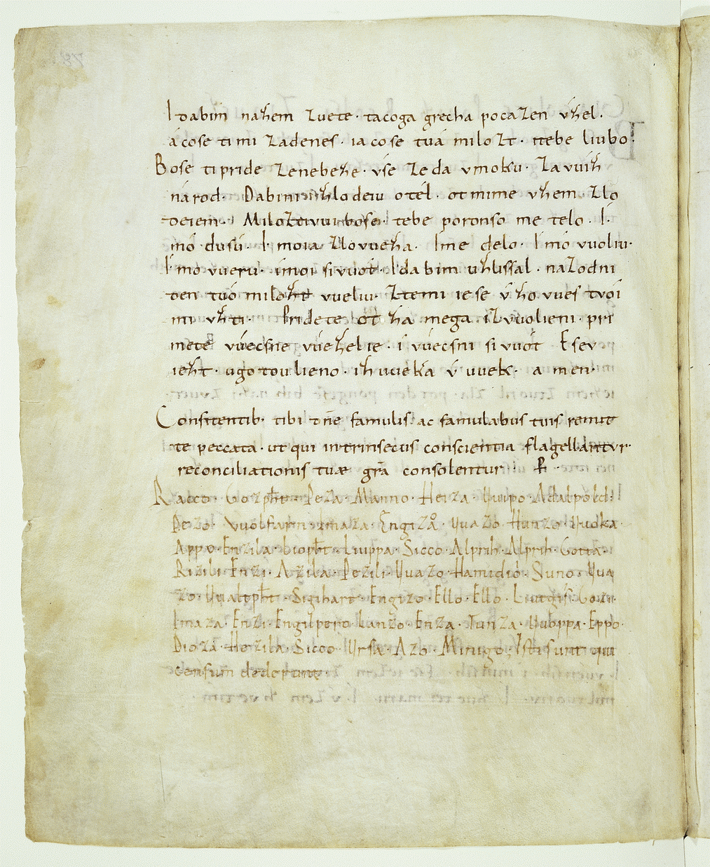 Facsimile of Freising Manuscripts, page 2.